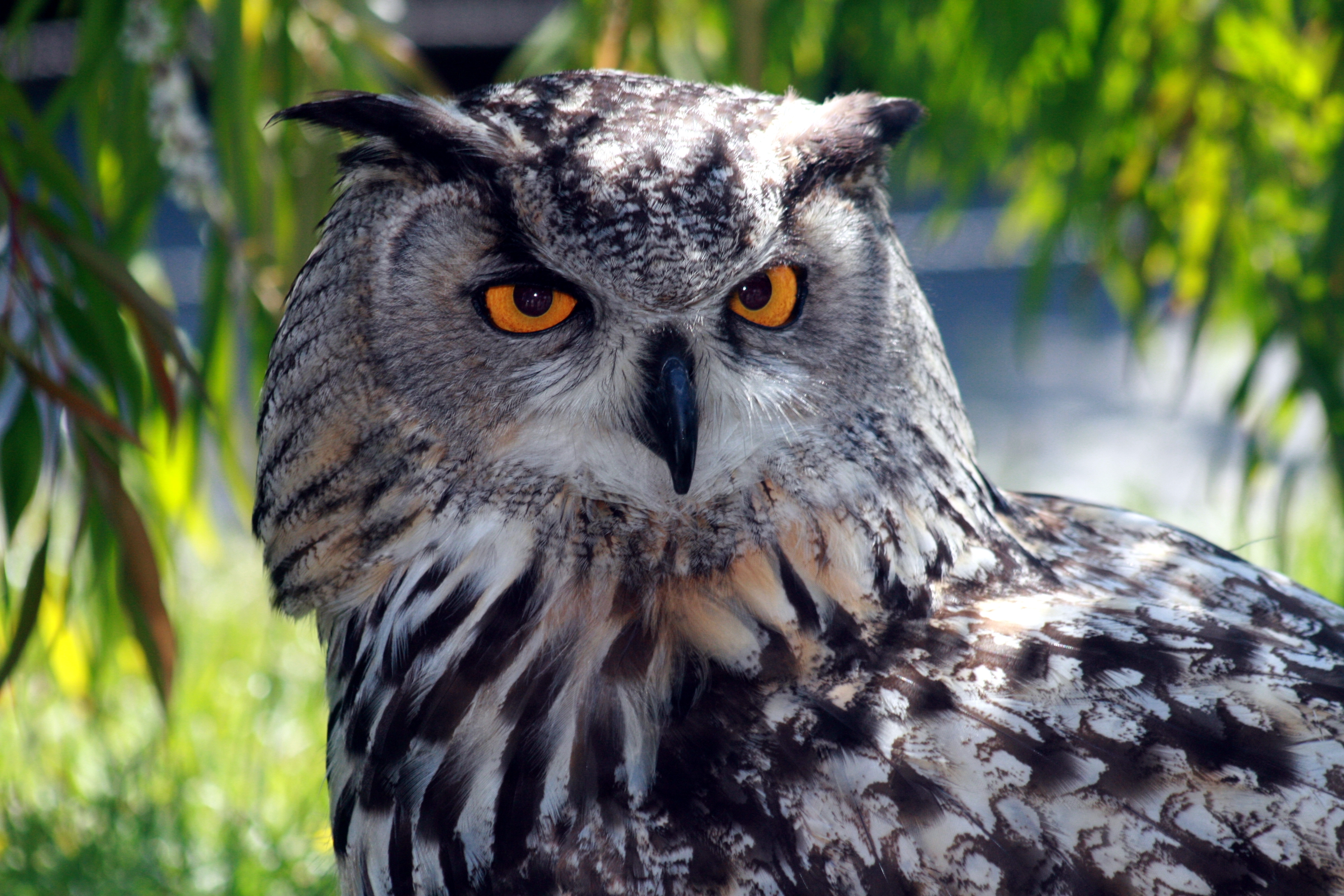 Eurasian Eagle Owl.